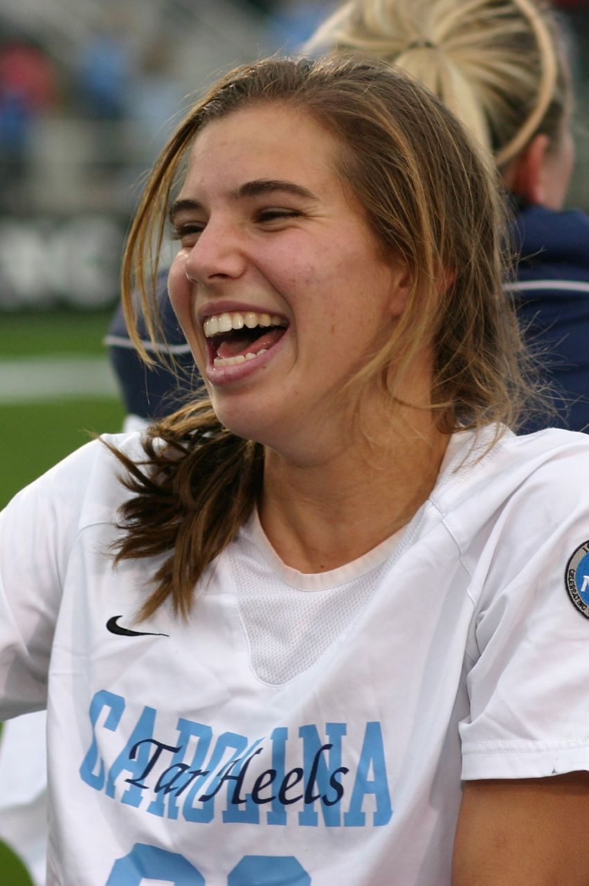 North Carolina Tar Heels #98 Tobin Heath after the National Championship game at SAS Soccer Park in Cary, NC on Sunday, December 3, 2006. UNC's goals were scored by Casey Nogueira and Heather O'Reilly.